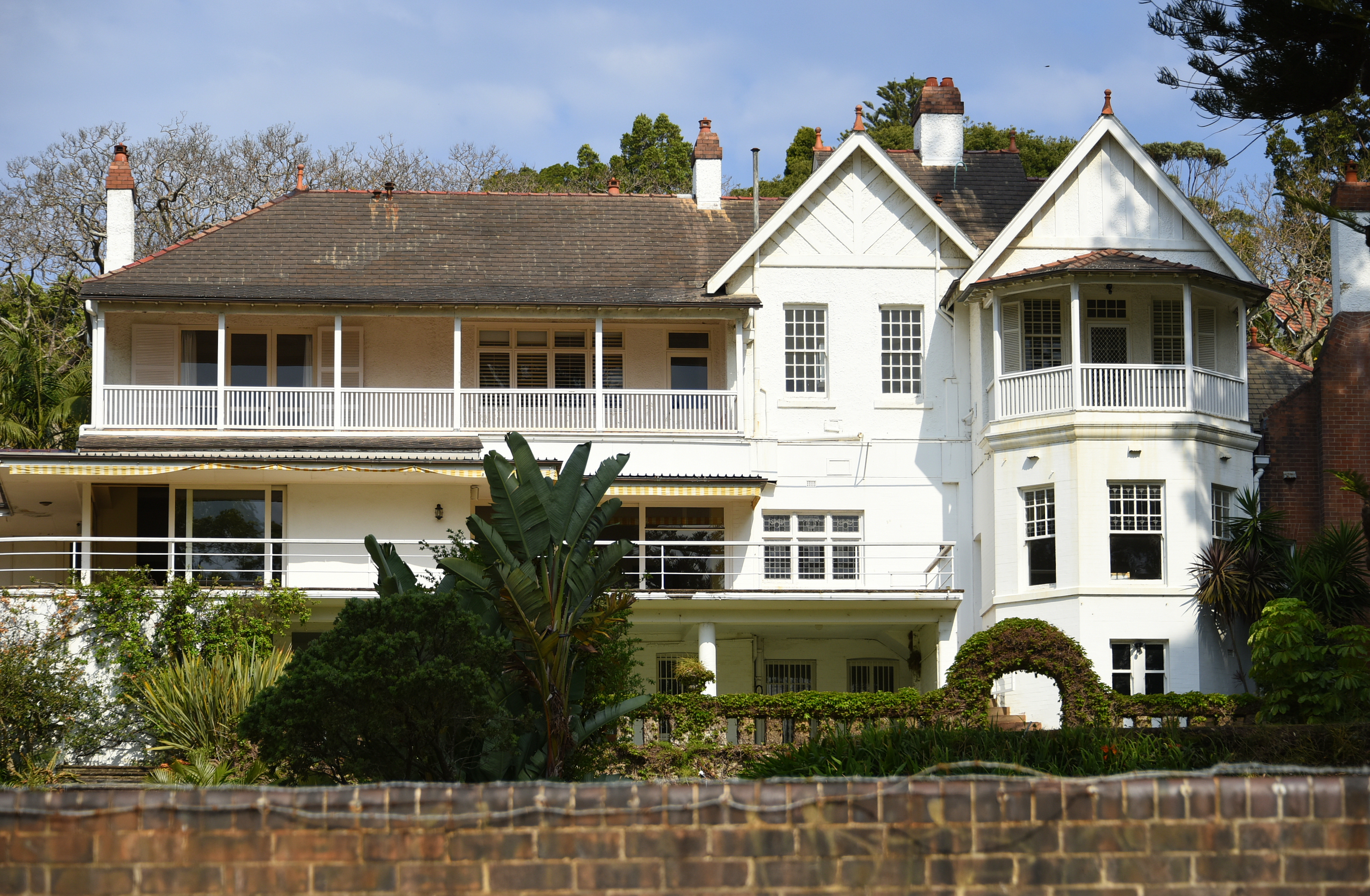 Elaine